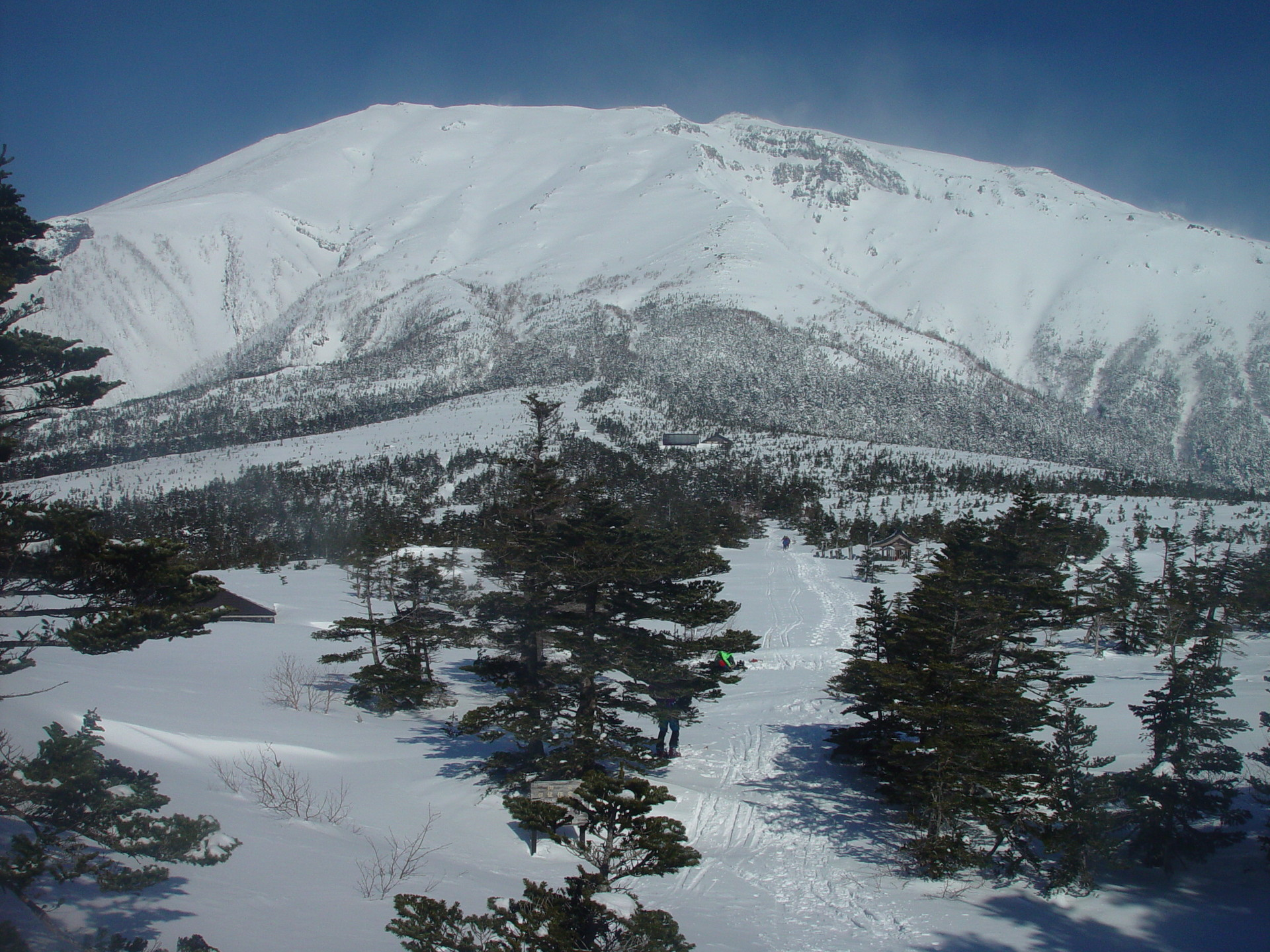 Mount Ontake from Tanohara